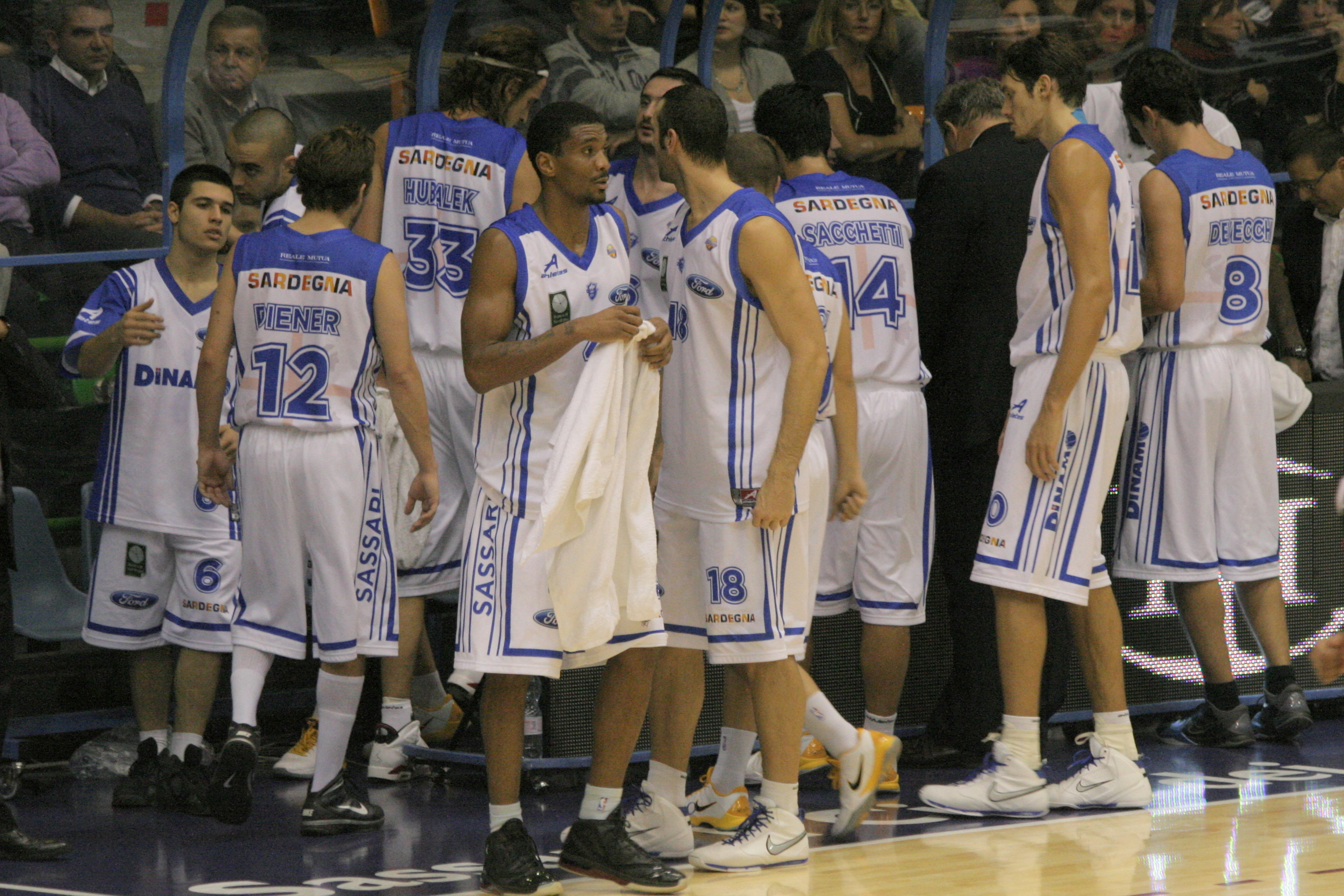 Dinamo Sassari team in italian A league of basketball